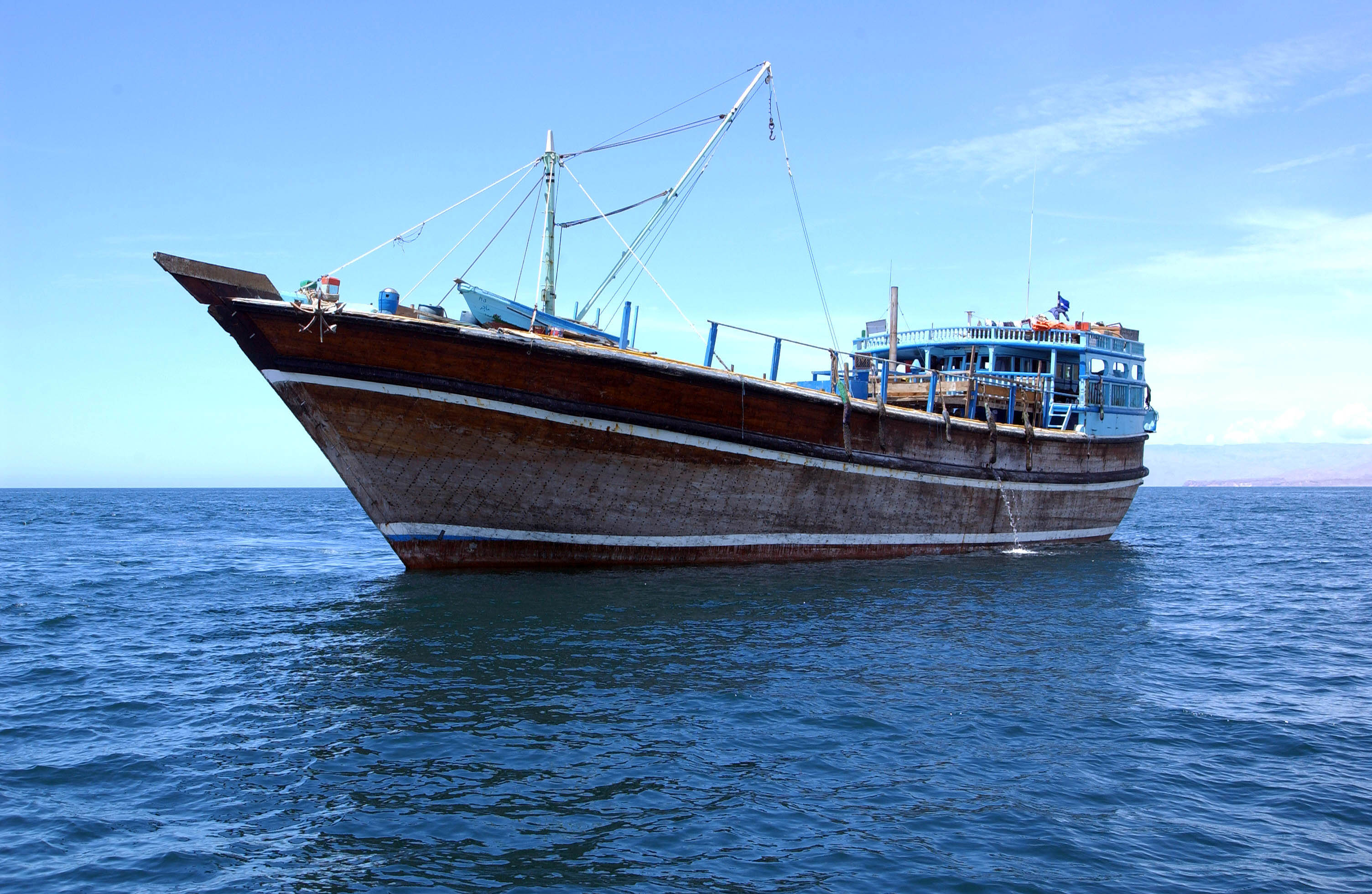 Dhow in Gulf of Aden (April 30, 2005). A dhow is a little coaster wood-made. its origin is from Arabia